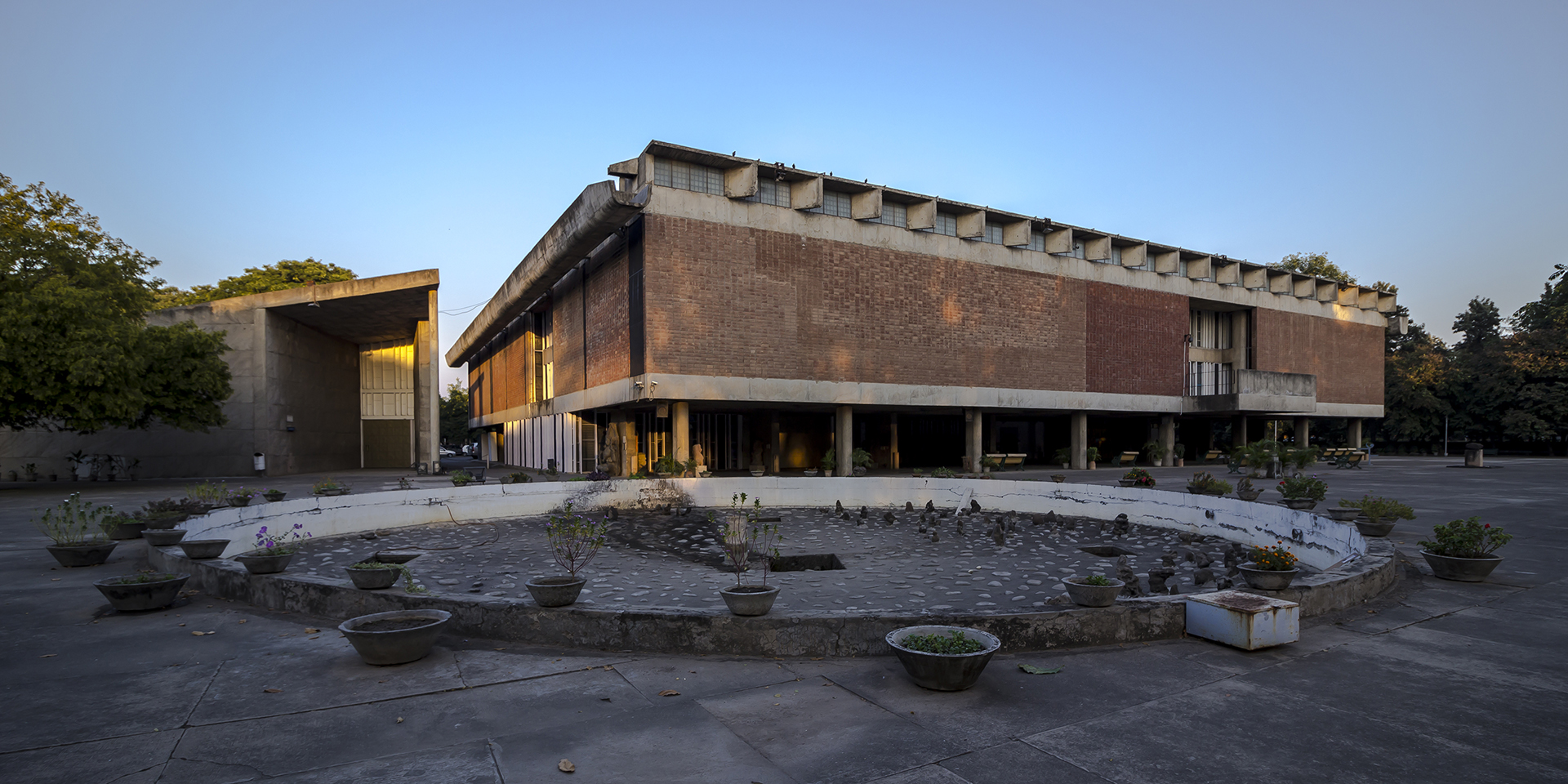 The piazza in front of Government Museum and Art Gallery, Chandigarh.